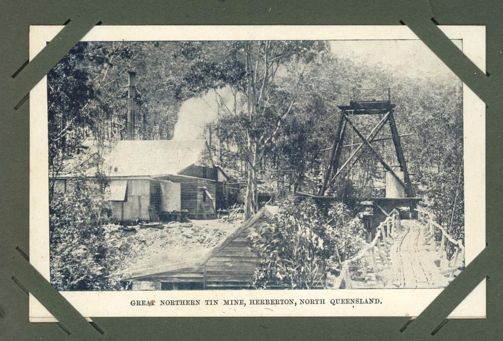 Great Northern Tin Mine, Herberton, North Queensland, ca. 1907. Postcards produced to promote Queensland at the Franco-British Exhibition of 1908. Note on reverse side of postcard reads: 'The total value of all minerals raised in Queensland during 1906 was £4,198,647.'.